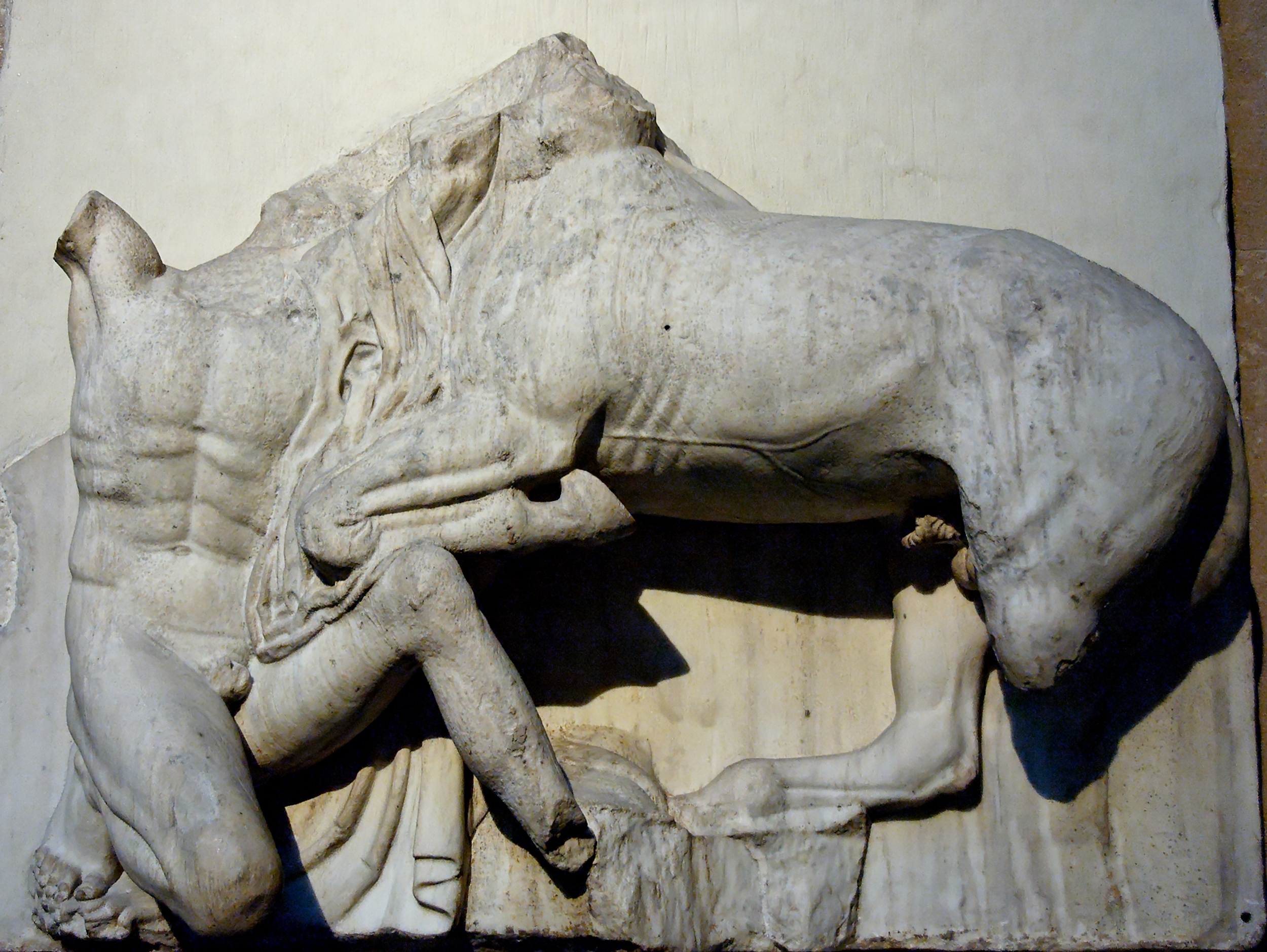 Lapith fighting a centaur. South Metope 8, Parthenon, ca. 447–433 BC.